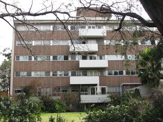 Student accommodation for the University of Melbourne. Designed by Berg & Alexandra in conjunction with Hub Waugh and Leighton Irwin.